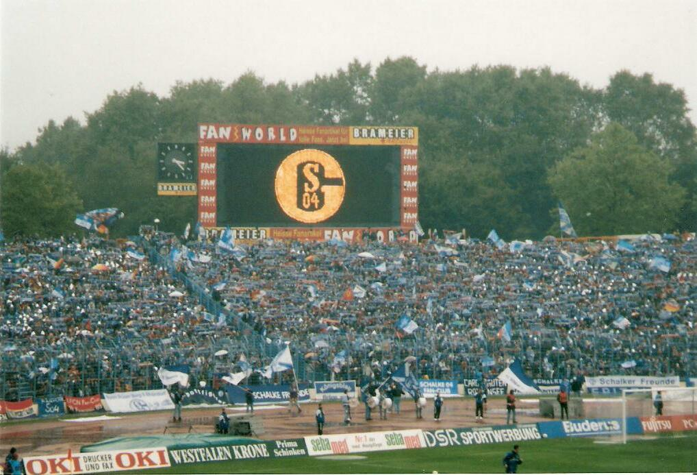 The Parkstadion at the match FC Schalke 04 - 1. FC Nuremberg